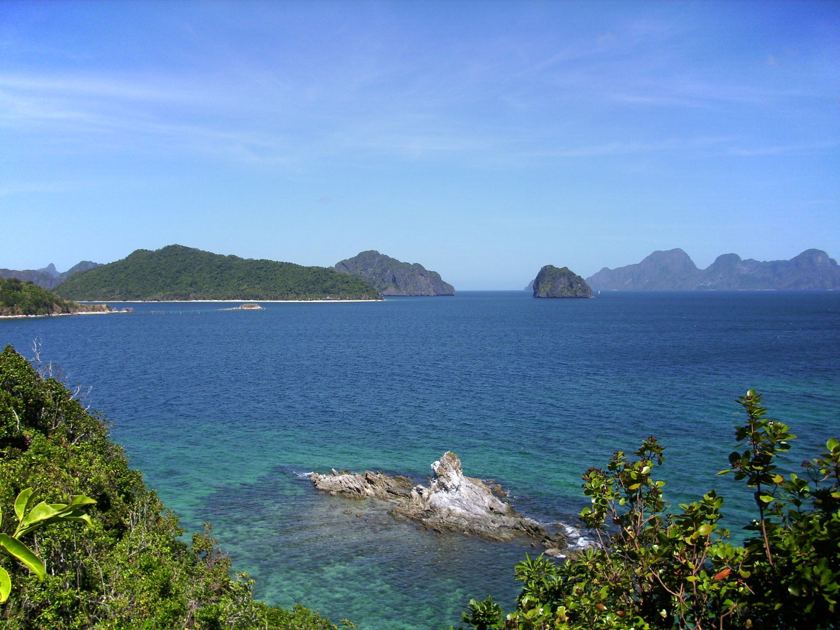 Bacuit Archipelago, municipality of El Nido, Palawan